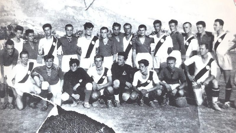 HŠK Zrinjski Mostar - MOŠK Gjerzelez Sarajevo 3:0, 1935. Mostar